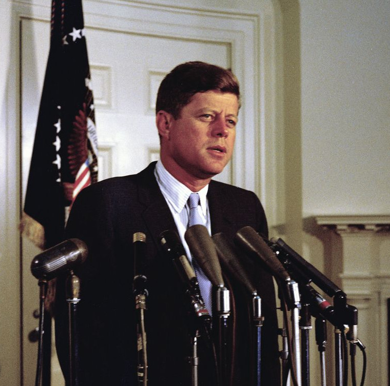 President John F. Kennedy speaks about Secretary of the Treasury C. Douglas Dillon's mission to the Punta del Este Conference of the Inter-American Economic and Social Council. Members of the mission visited the President a day before departing Washington for Montevideo, Uruguay to participate in the conference as part of the Alliance for Progress. Conference Room (Fish Room), White House, Washington, D.C.